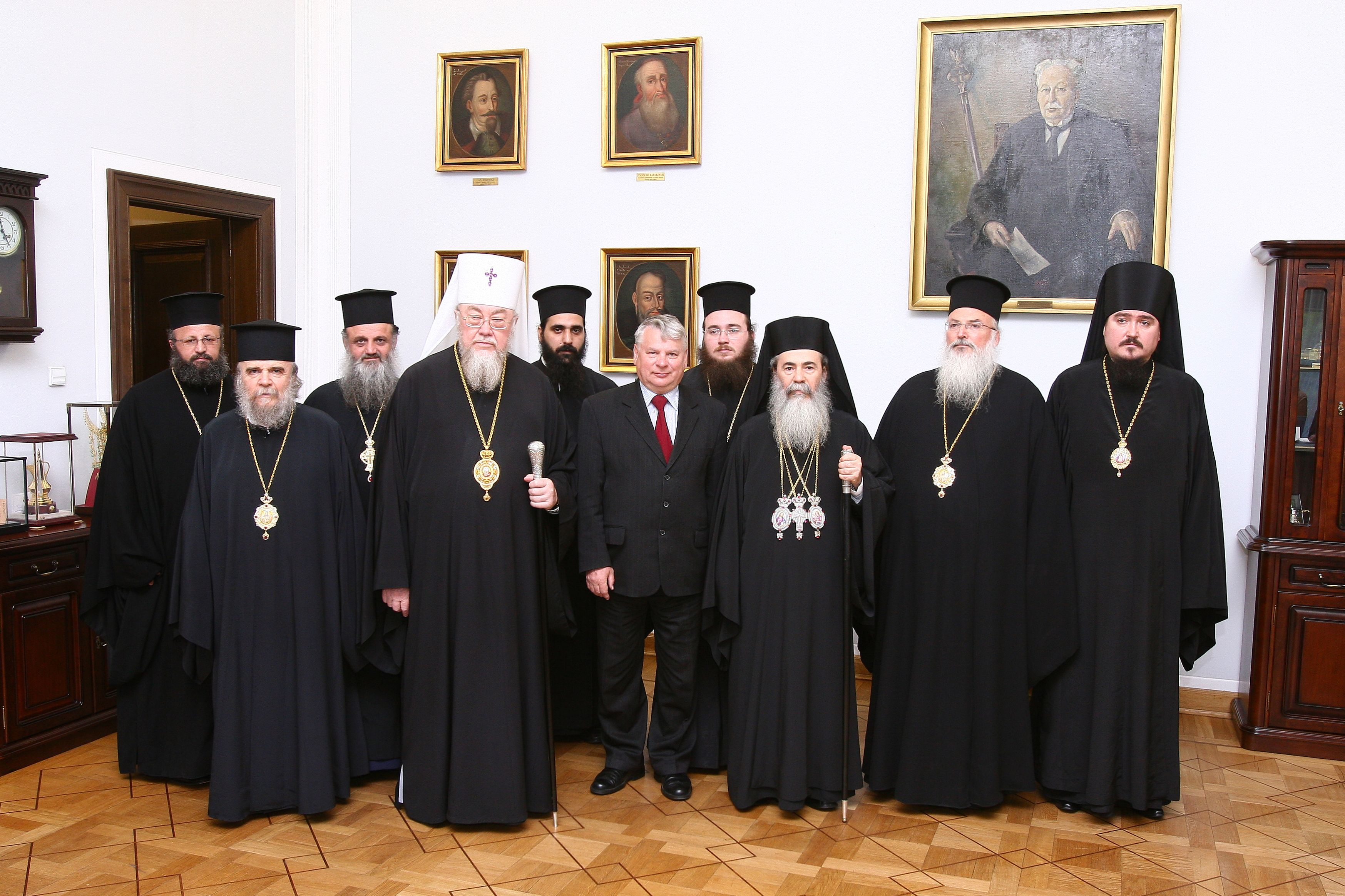 Patriarch Theophilos III of Jerusalem in the Polish Senate